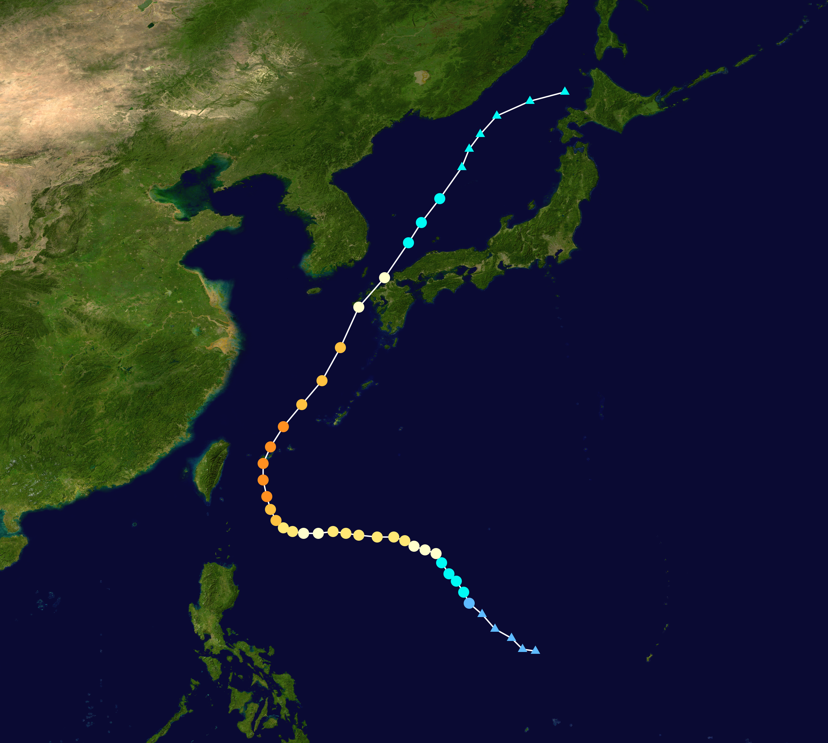 Typhoon Shanshan (2006) track. Uses the color scheme from the Saffir-Simpson Hurricane Scale.